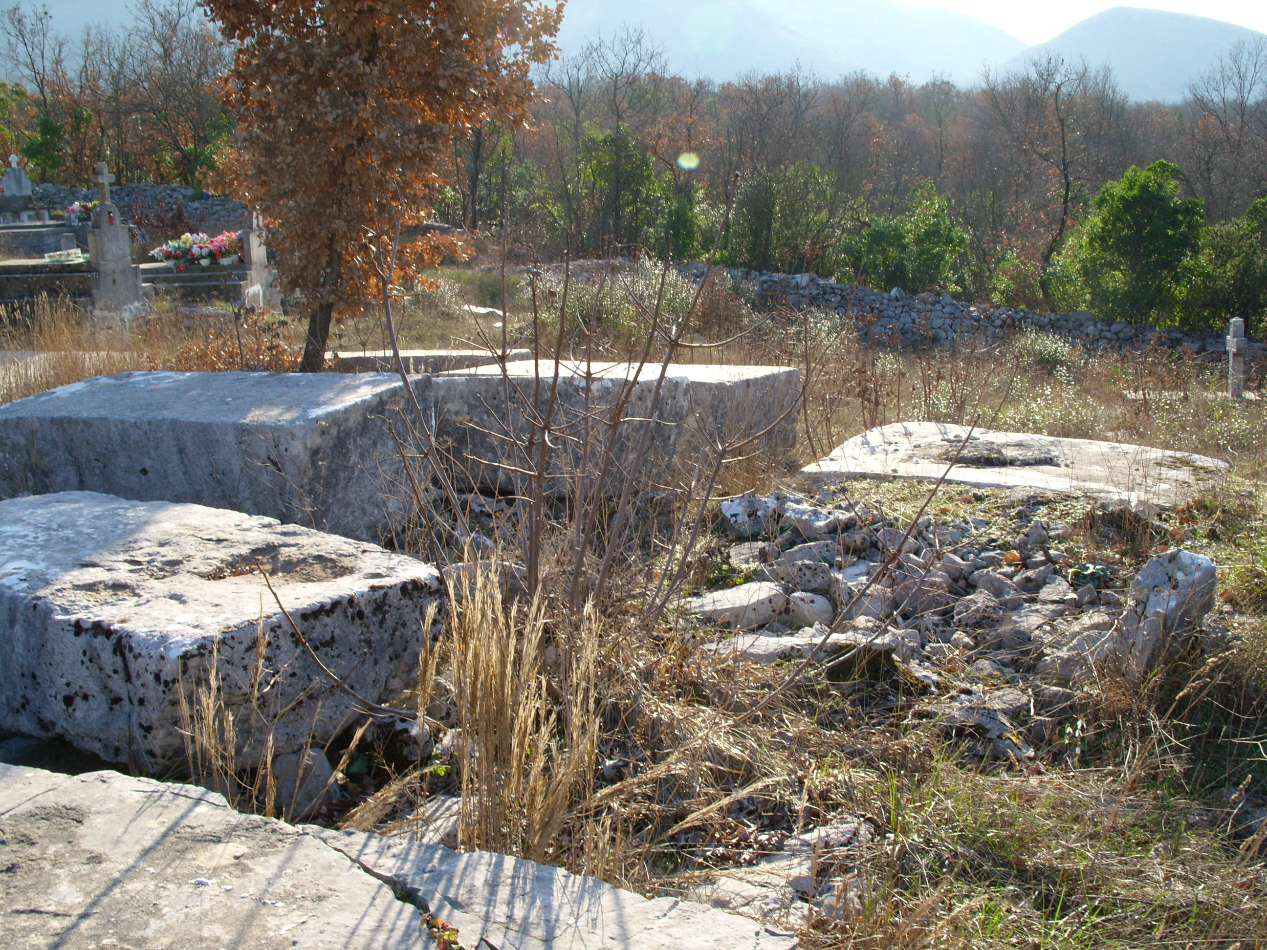 Stećci in the cemetery of the village Orah.